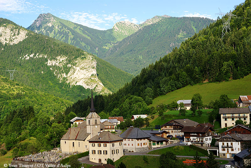 Seytroux Village, in the heart of the Vallée d'Aulps, Haute-Savoie, France